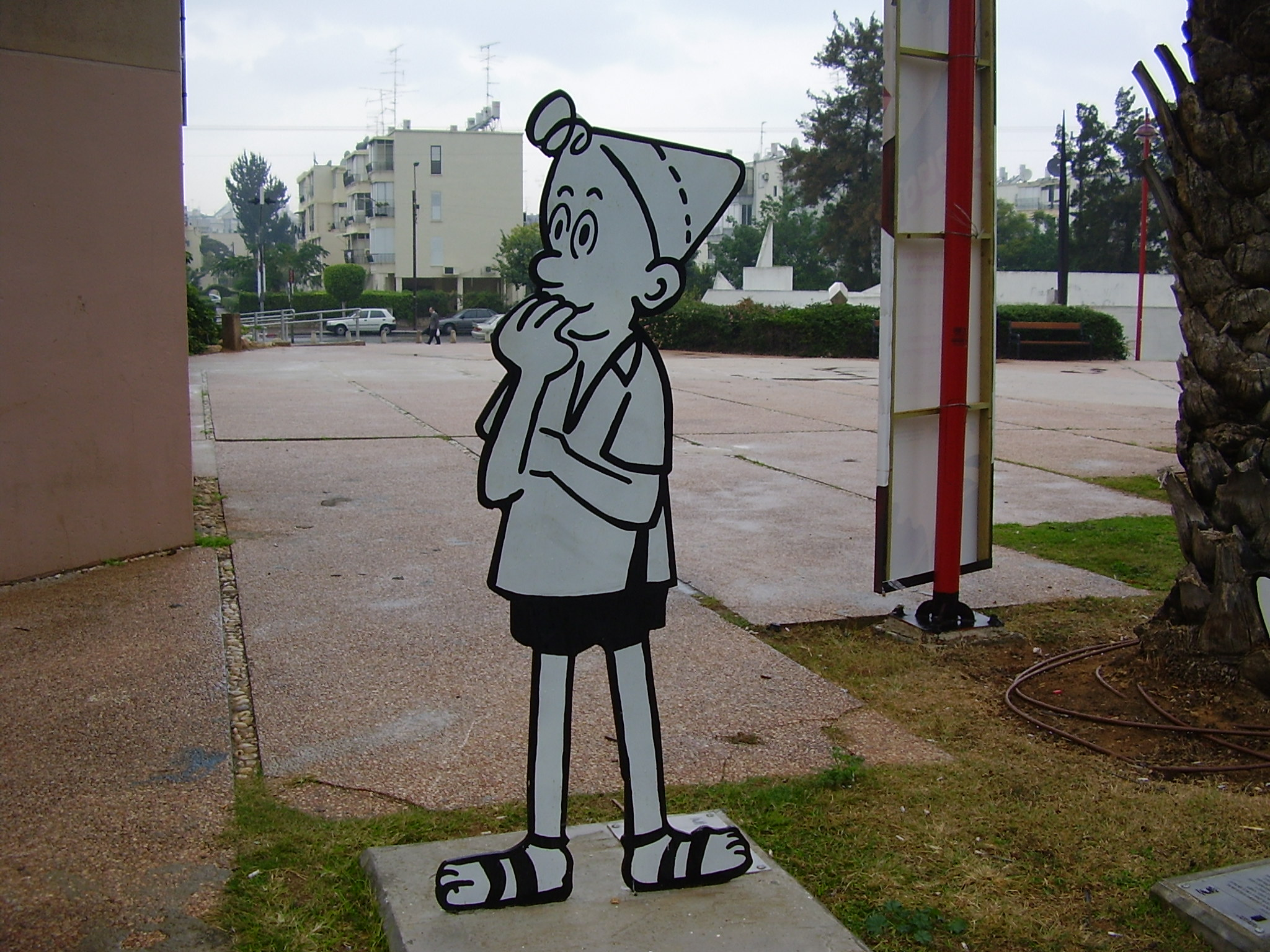 "Srulik" in the museum of cartoons and comics in Holon